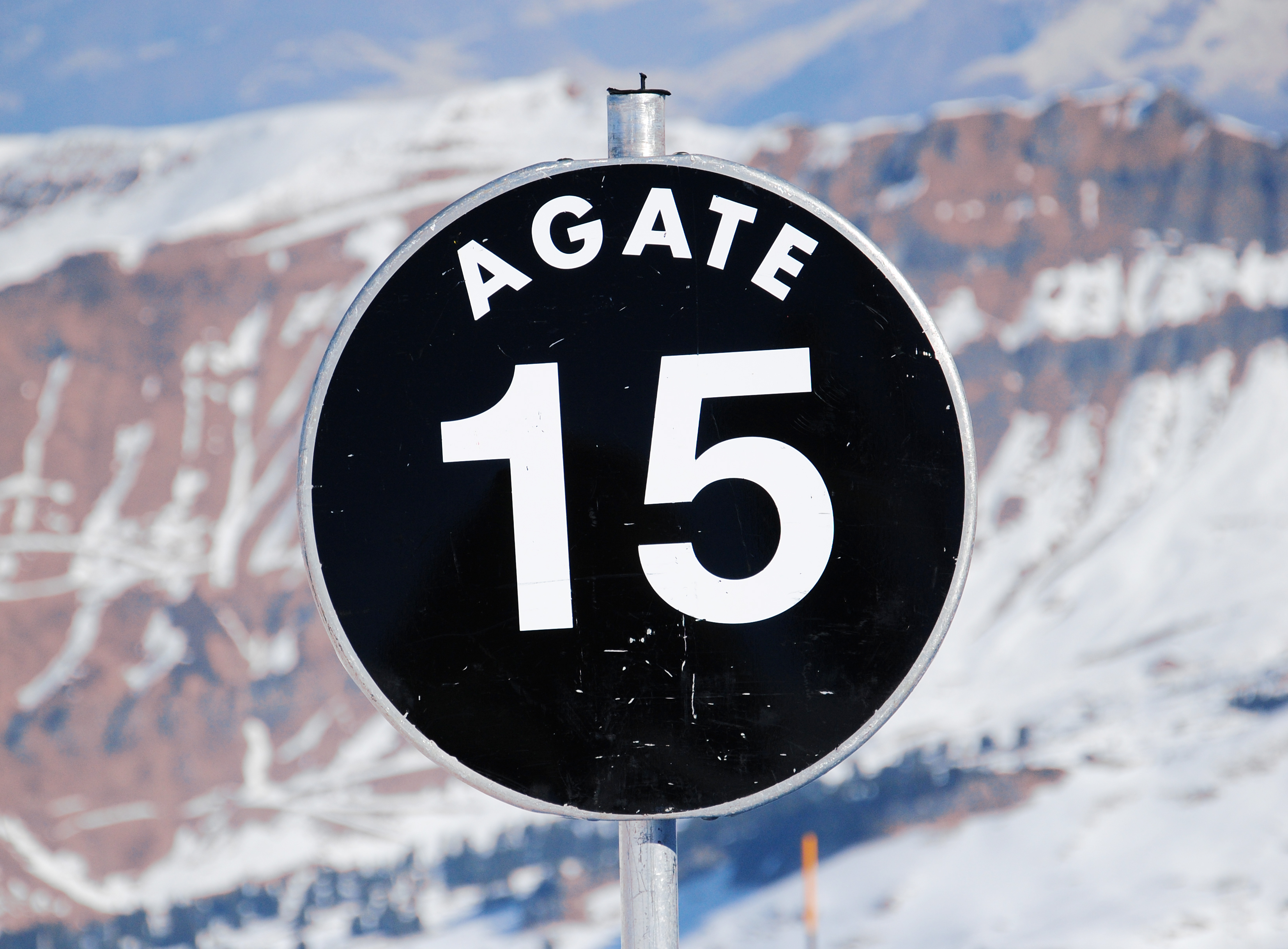 Sign at the side of the ski piste Agate in Flaine, France